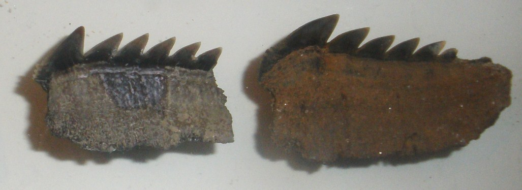 Fossil of Hexanchus gigas, an extinct shark. Took the photo at Naturalis museum, Leiden